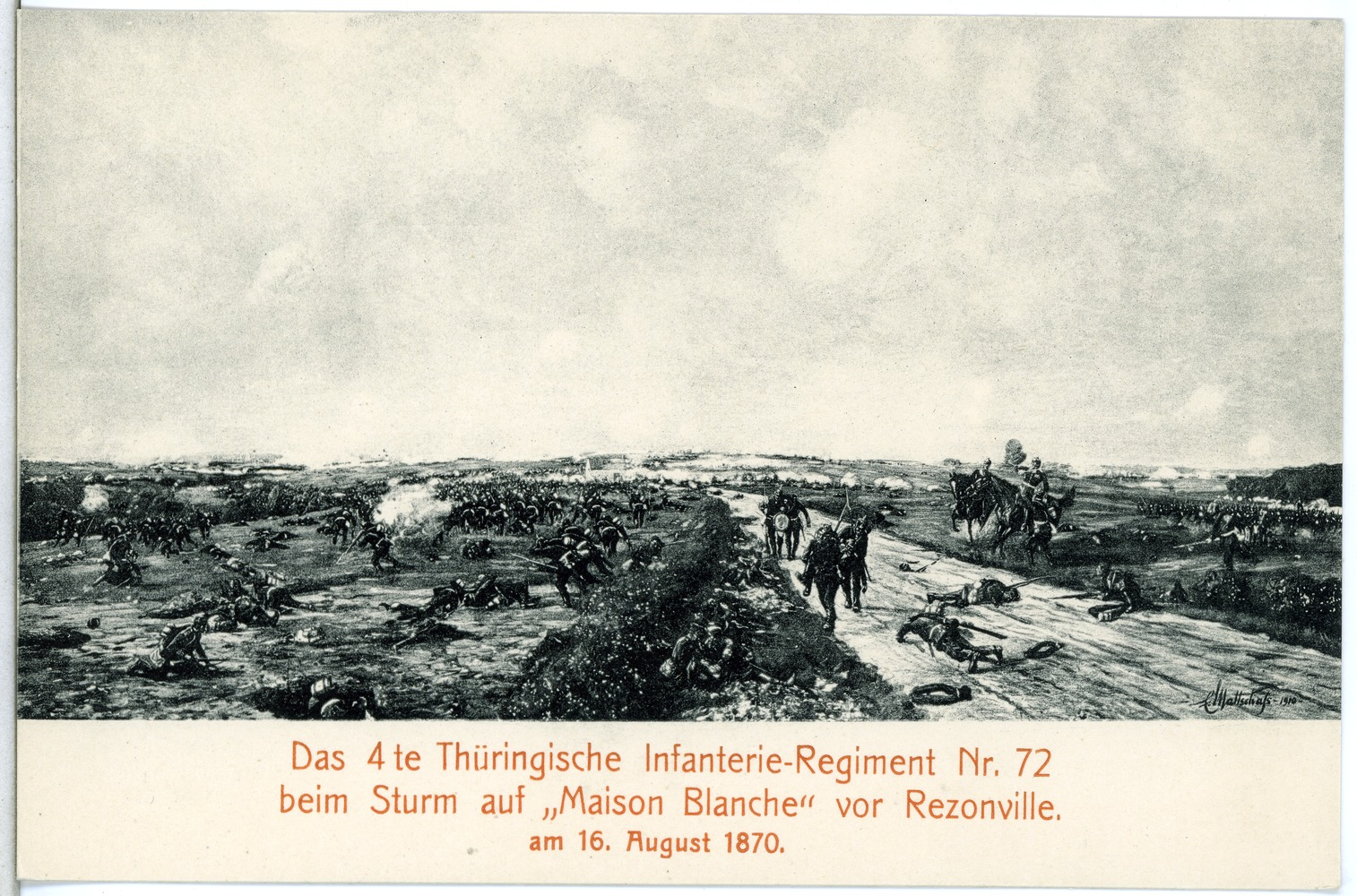 This postcard is from publisher Brück & Sohn in Meißen ( This postcard has a unique number 14816 and is available in a higher resolution at the publisher. This images was uploaded in a cooperation project between Wikipedians and the publisher.